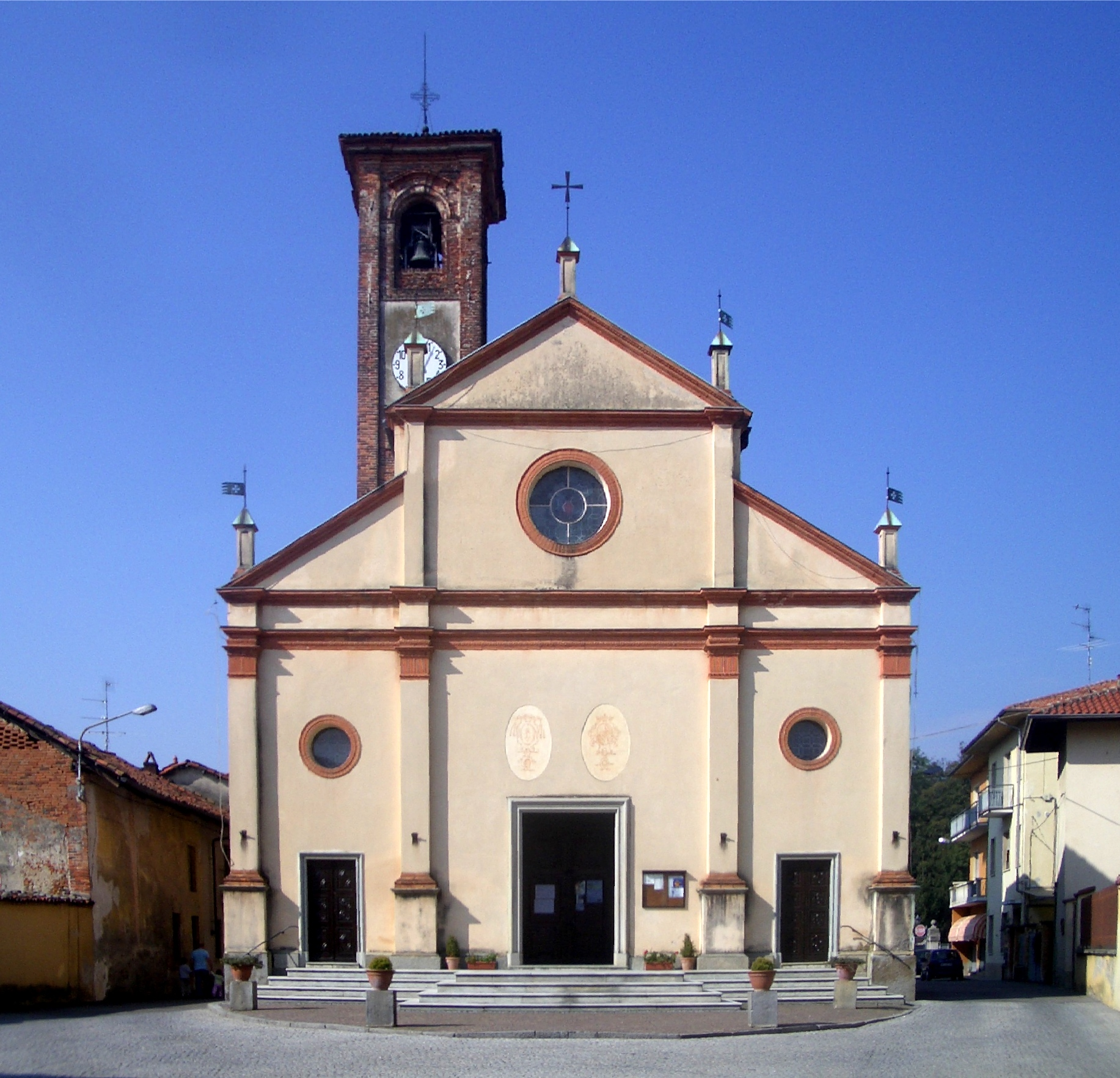 St Peter parish church , XVI century, Benna (Biella), Italy